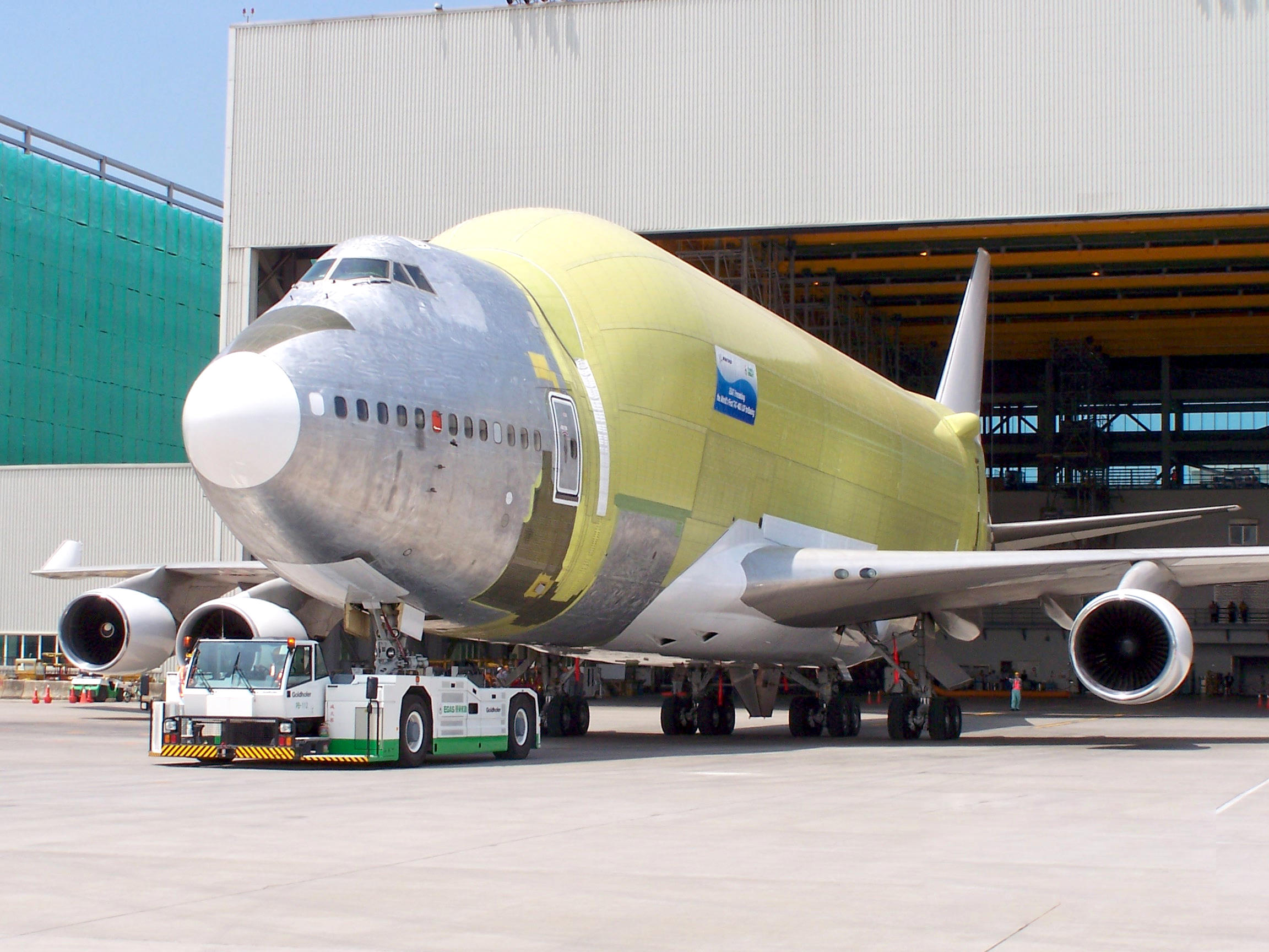 First Boeing 747-400LCF Converted by EGAT